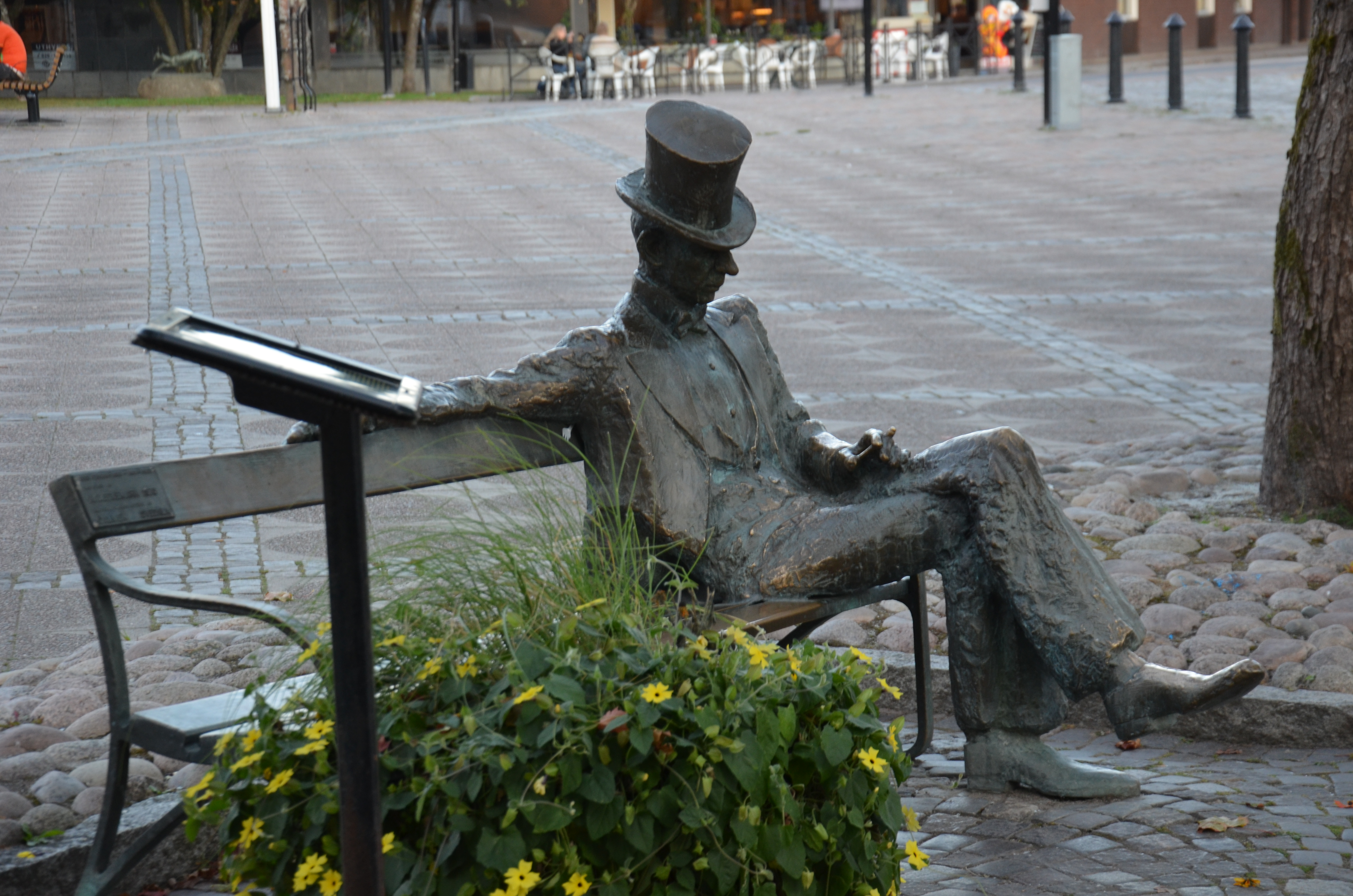 K G Bejemarks staty över Nils Ferlin på Stora Torget i Filipstad